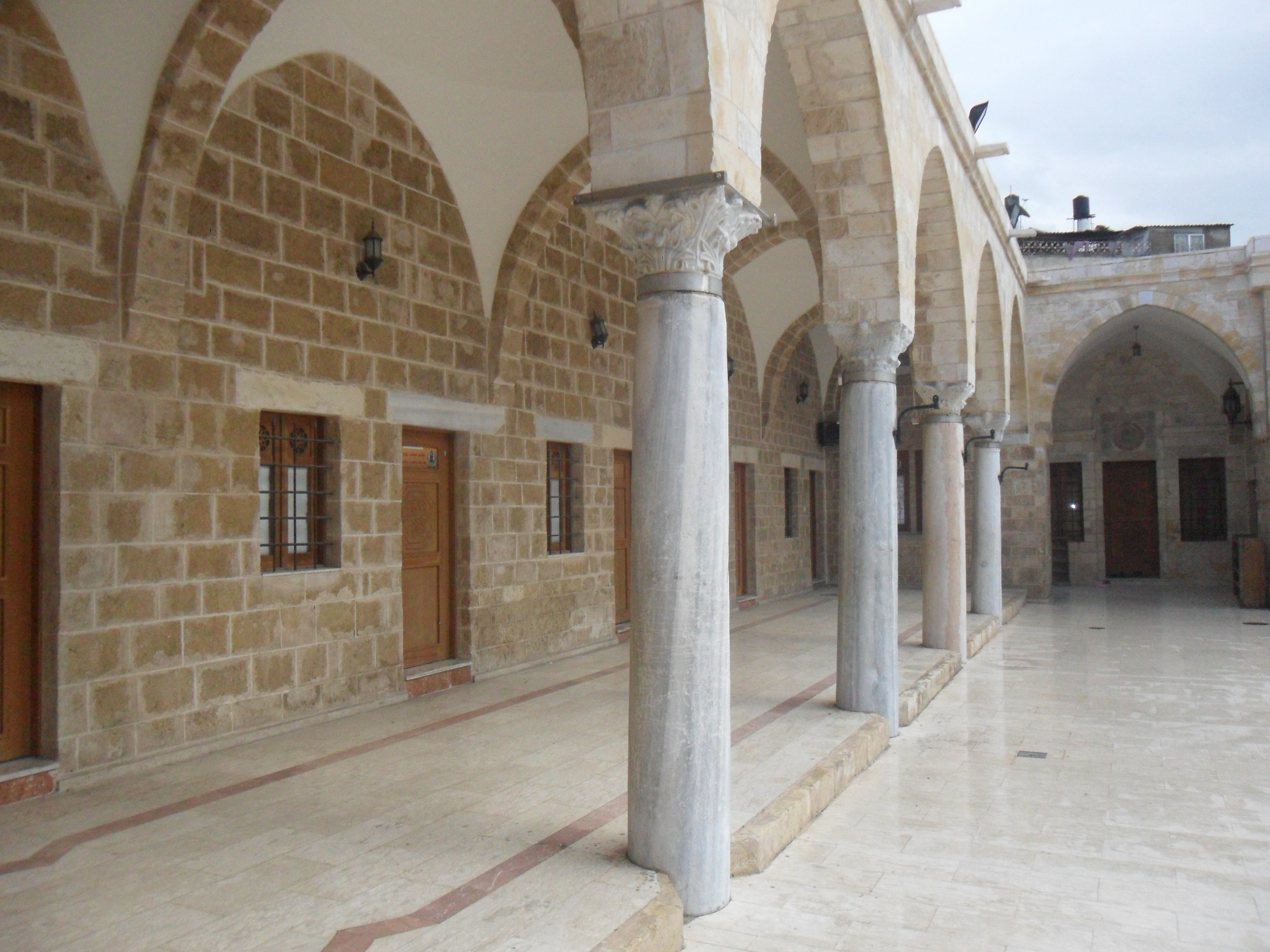 Saed Hashem Mosque